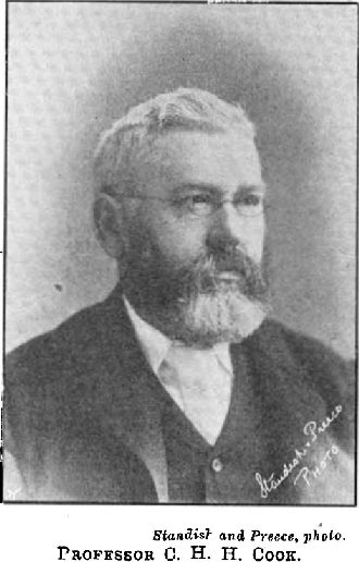 Studio headshot of Charles Henry Herbert Cook taken from "The Cyclopedia of New Zealand [Canterbury Provincial District]" 1903. Cook was a founding staff member of the University of Canterbury.